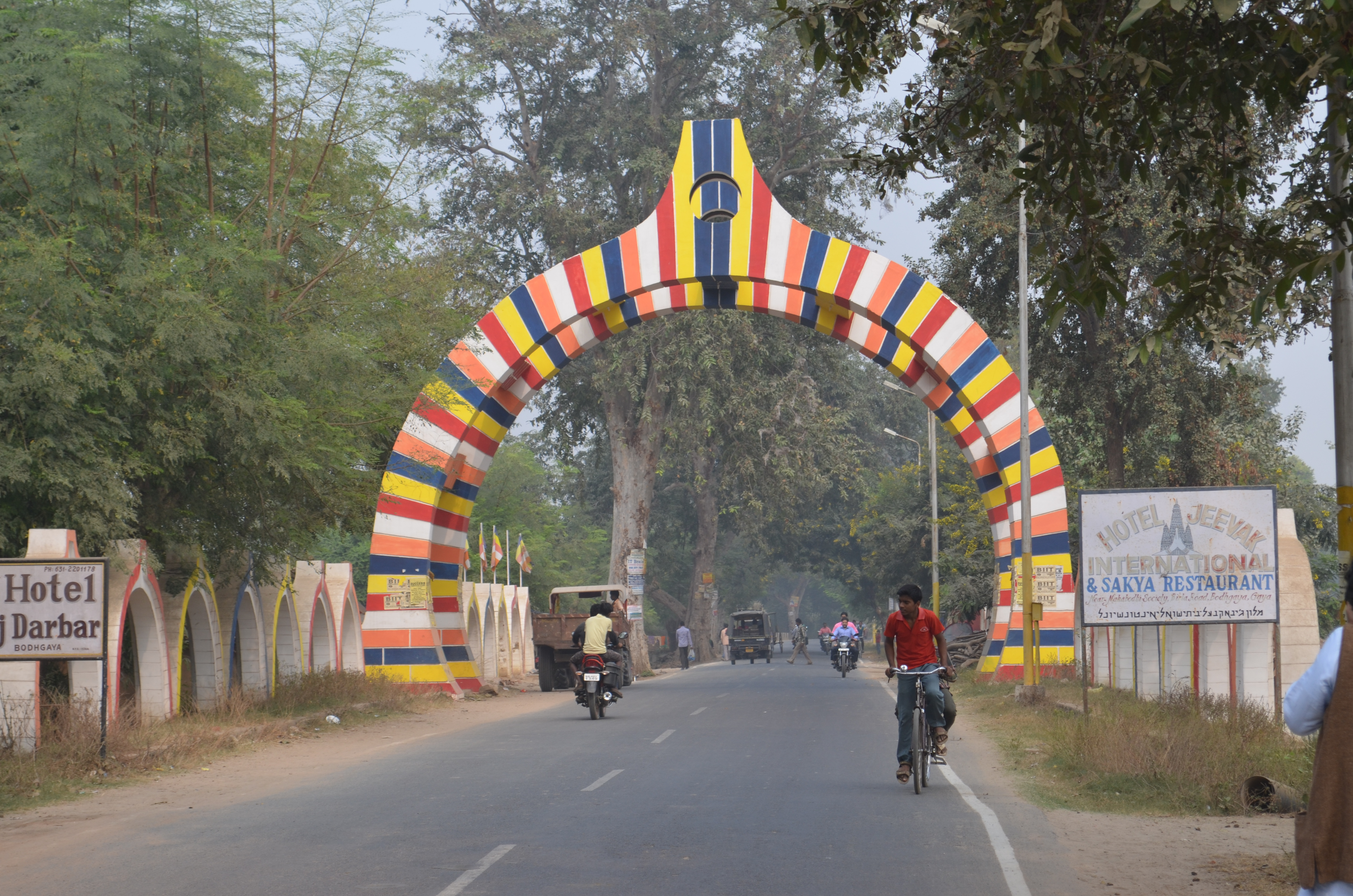 This is the gate for entry to The Land of Buddha, Bodh Gaya.